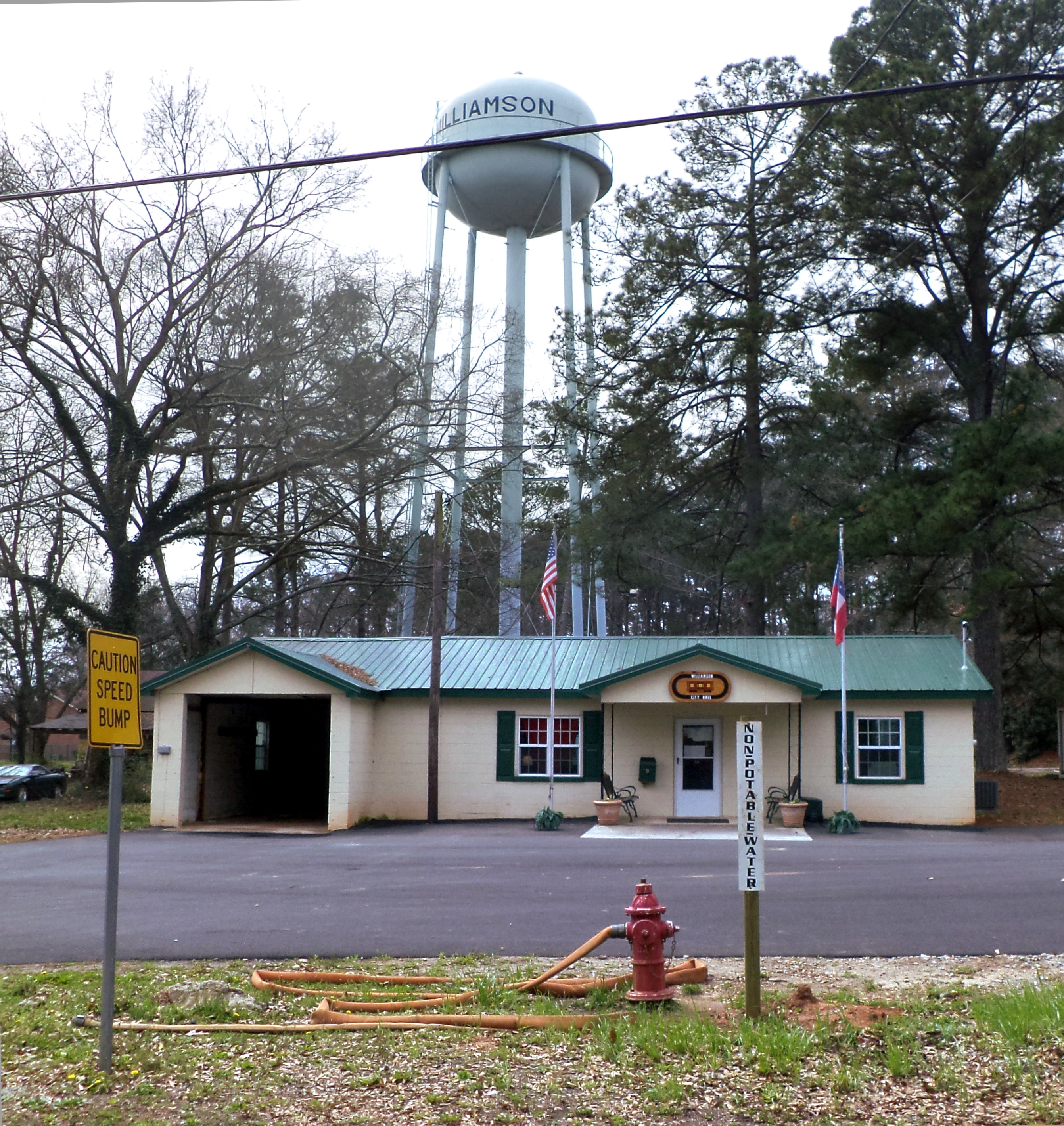 Williamson City Hall, Midland St., Williamson, Pike County, Georgia